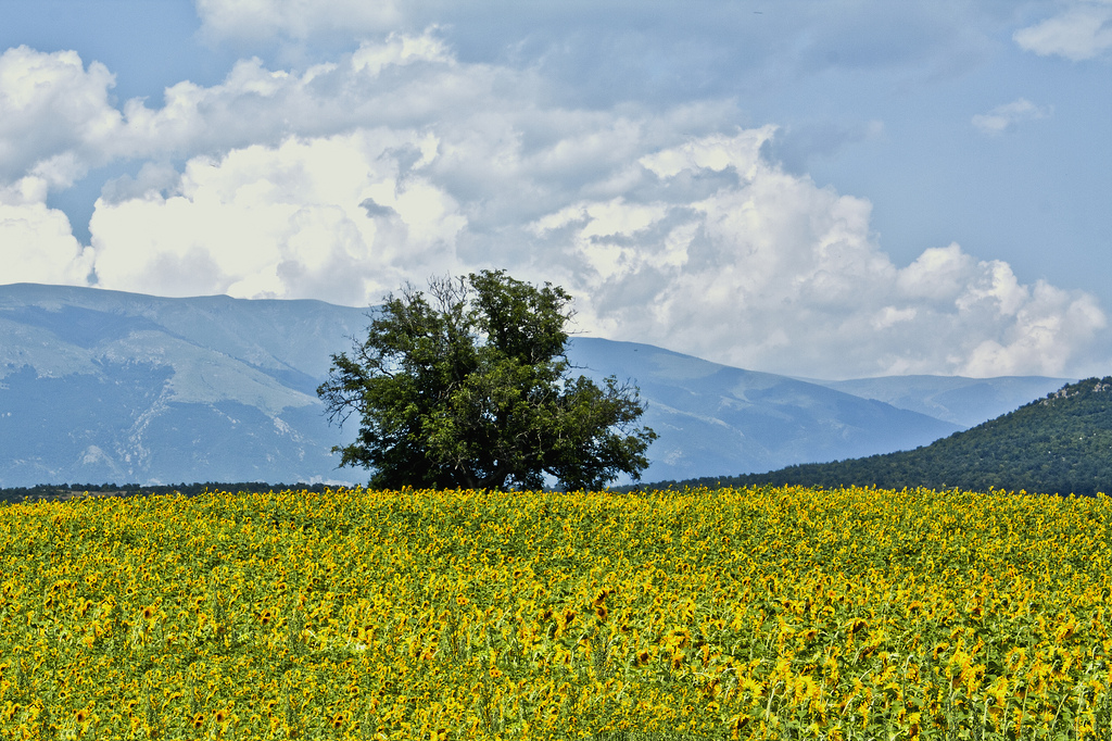 View near Prolom, Bulgaria.